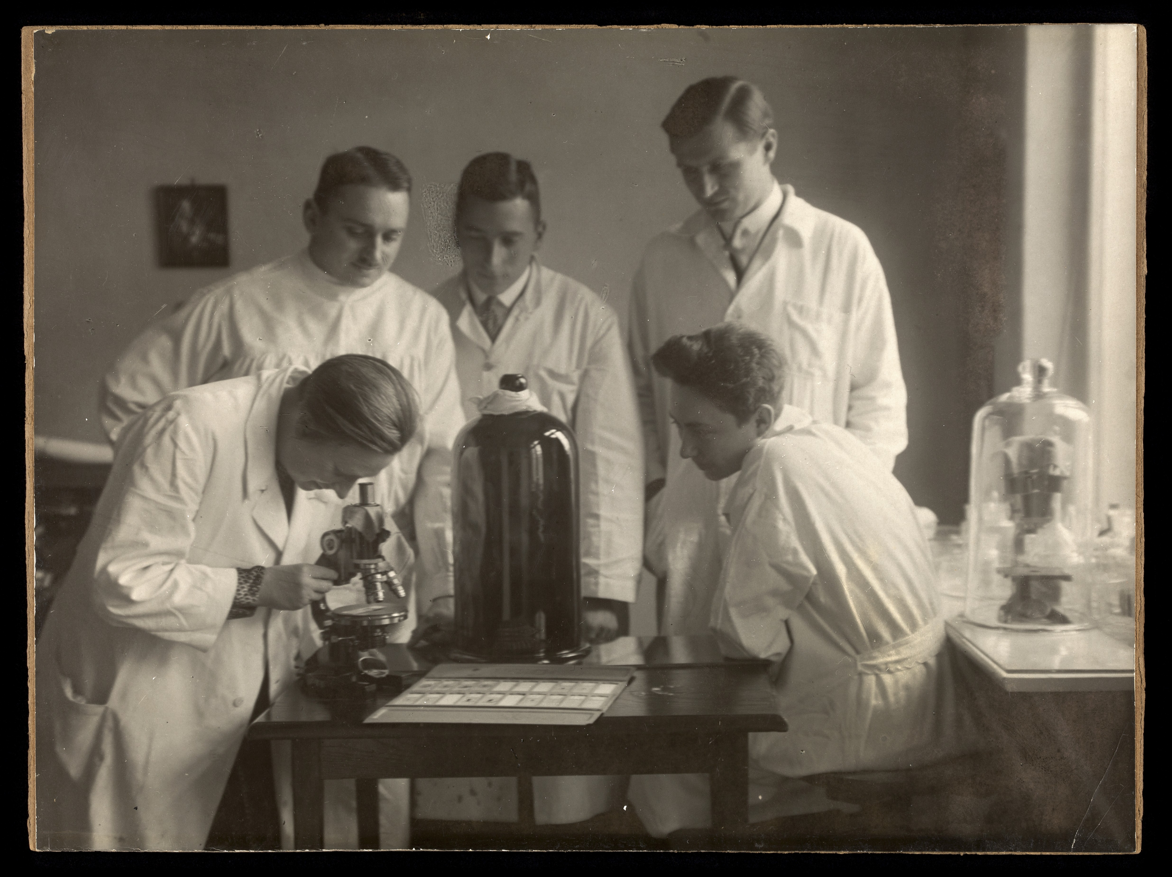 Rhoda Erdmann. Rhoda Erdmann’s Berlin lab, 1929: Honor Fell described Erdmann (pictured, above left, looking into the microscope) as ‘one of the most distinguished figures in cell biology during the twenties and early thirties’ Digitised for CODEBREAKERS, MAKERS OF MODERN GENETICS Archives & Manuscripts